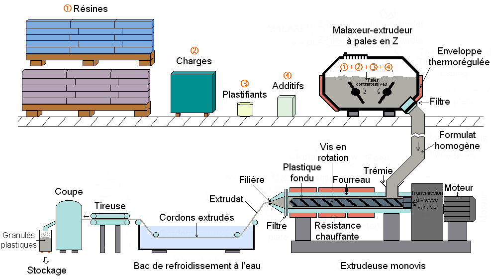 Use of a Z-blade kneader and extruder to produce granules (compounding) from polymer material. Granules is a form which is very convenient for use in other processing methods, such as injection moulding. The granules are typically 3 mm diameter and about 4 mm long.